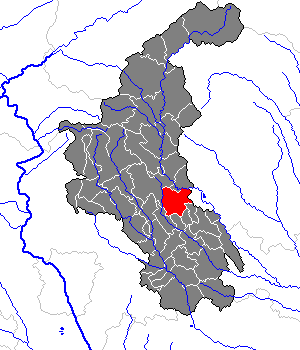 This map shows the area of the Gemeinde (municipality) Puch bei Weiz in the Bezirk (district) Weiz, Styria, Austria.